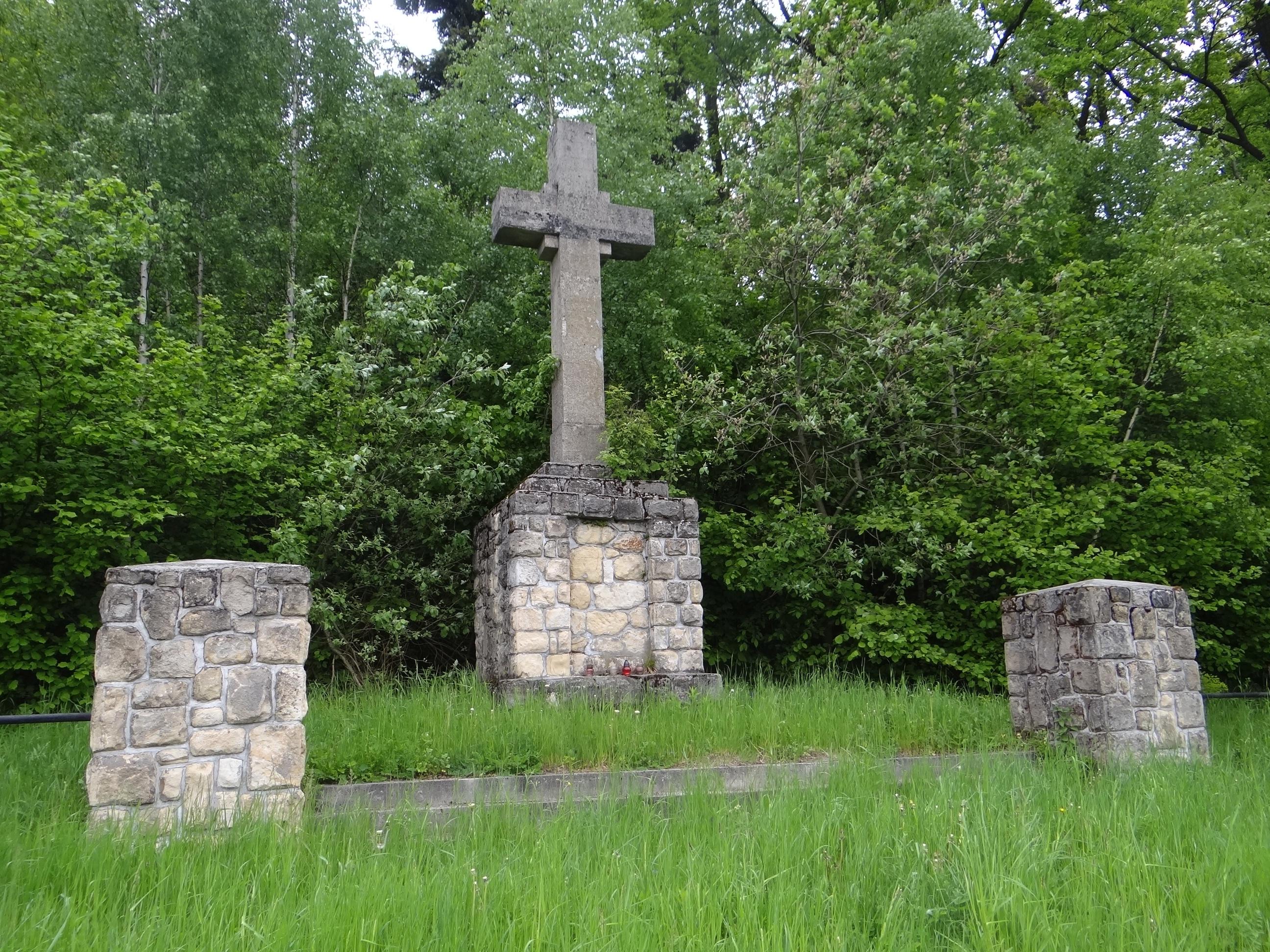 World War I Cemetery nr 136 - Zborowice